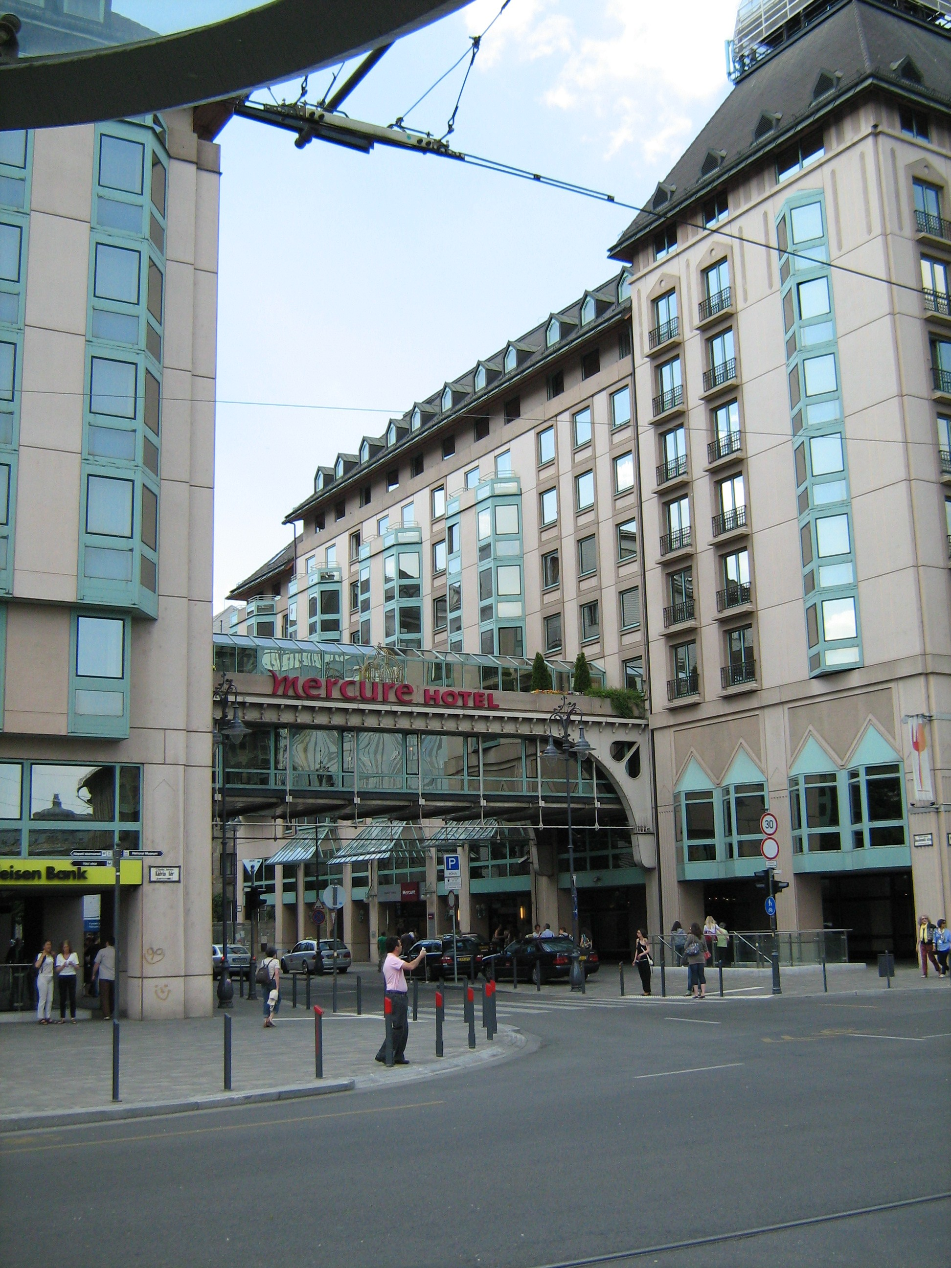 The Mercure Hotel in Budapest, Hungary. May 13, 2011